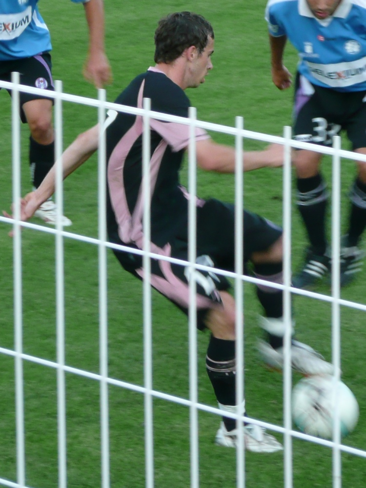 French soccer player